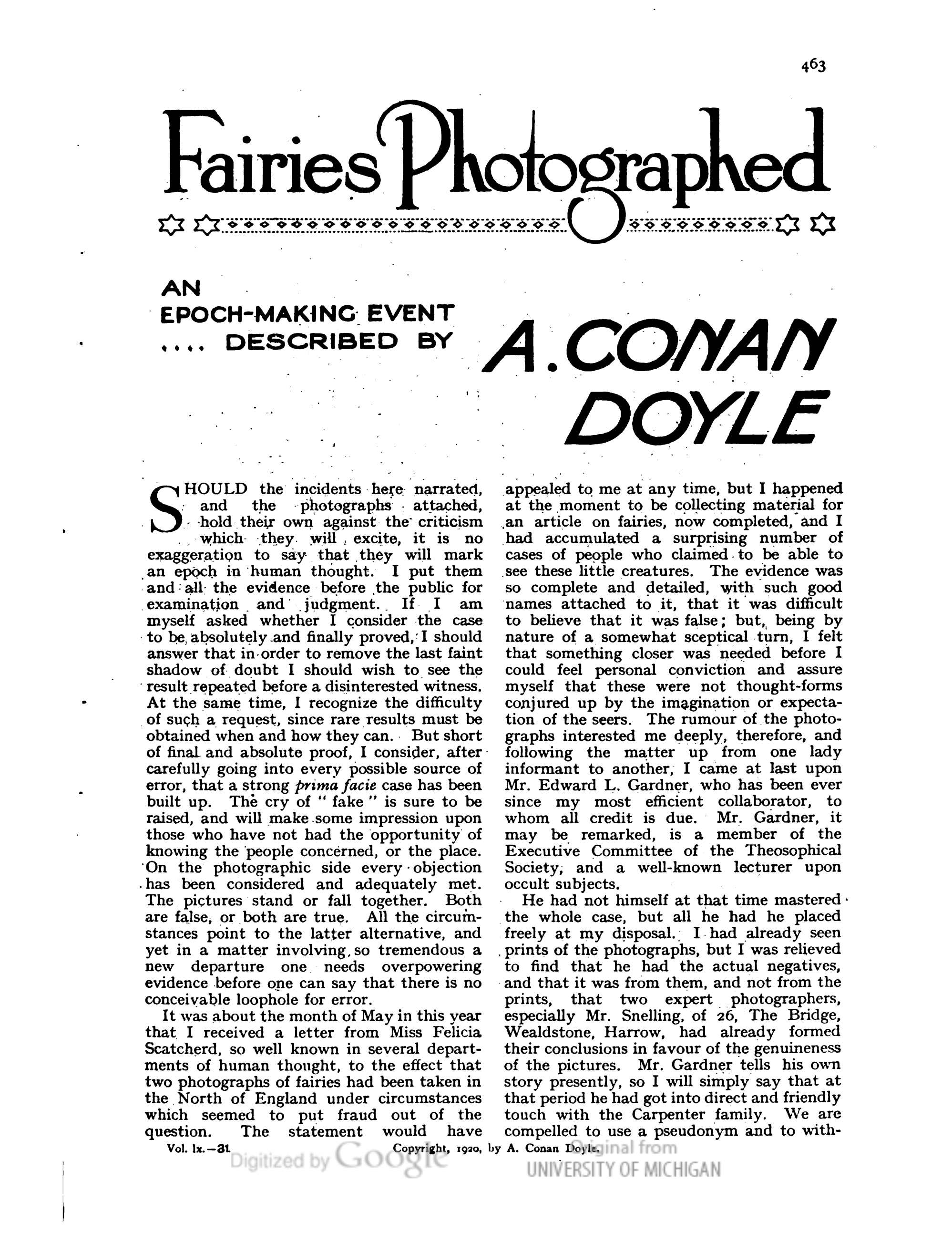 Fairies Photographed article first page, by Arthur Conan Doyle in page 463, The Strand Magazine - 1920 - Vol.Jul-Dec